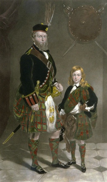 John Ogilvy-Grant, 7th Earl of Seafield (1815-1881)